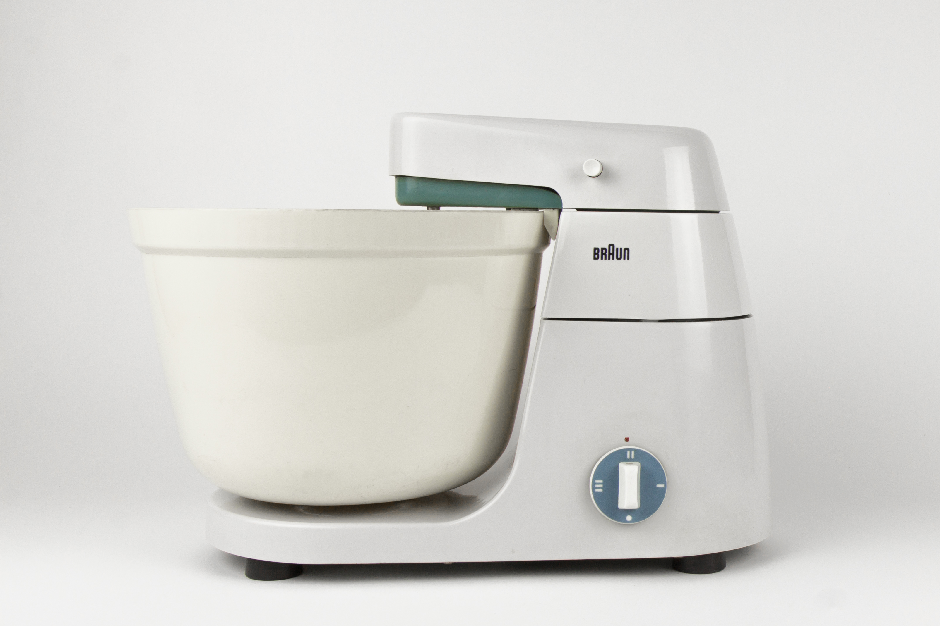 Braun KM 3 food processor (1957–1964) Full assembly with bowl and dough hook.